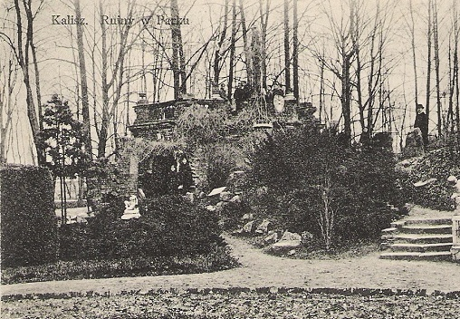 Kalisz, Poland, the Great Park, before 1914